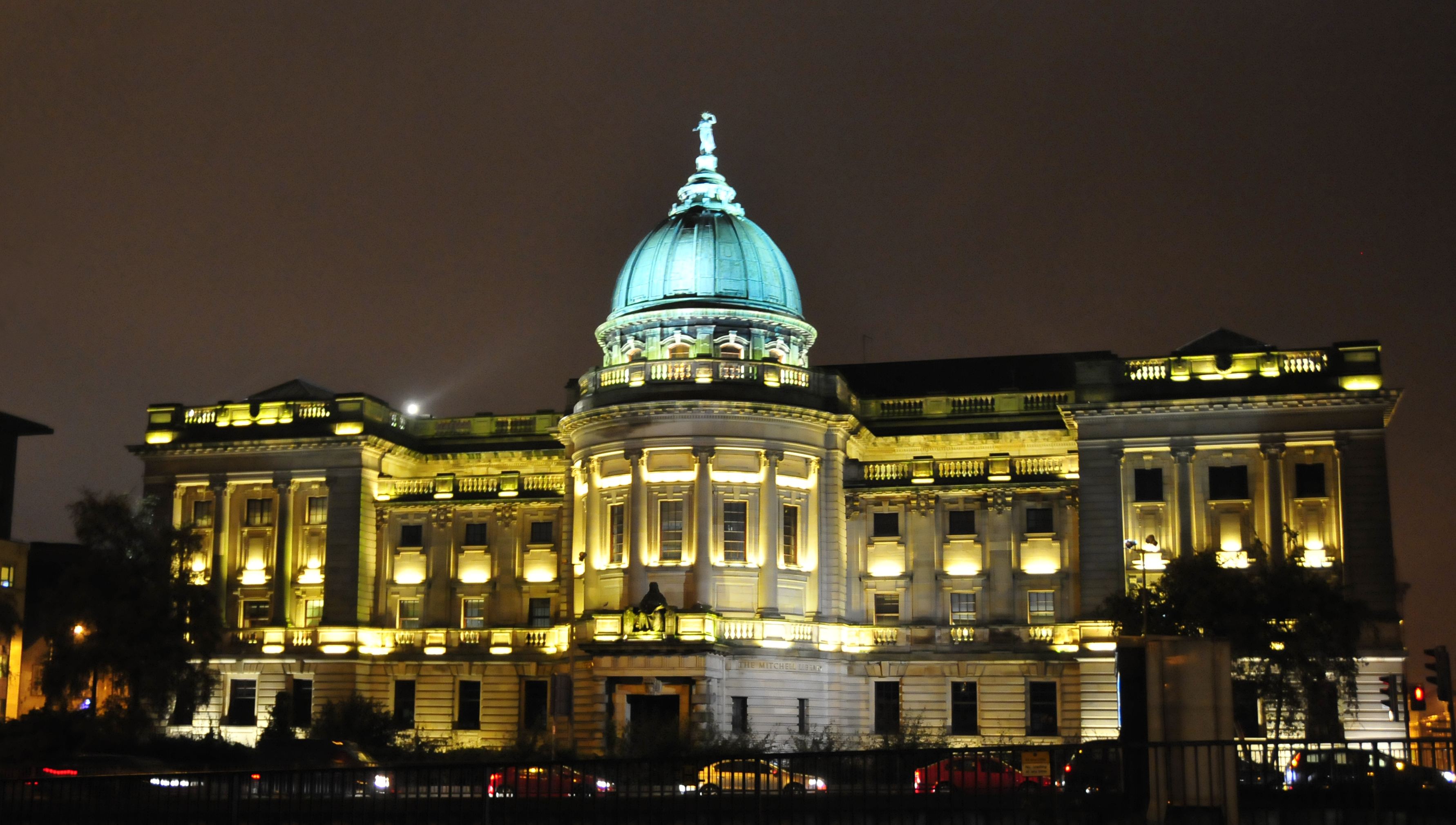 Mitchell Library at night